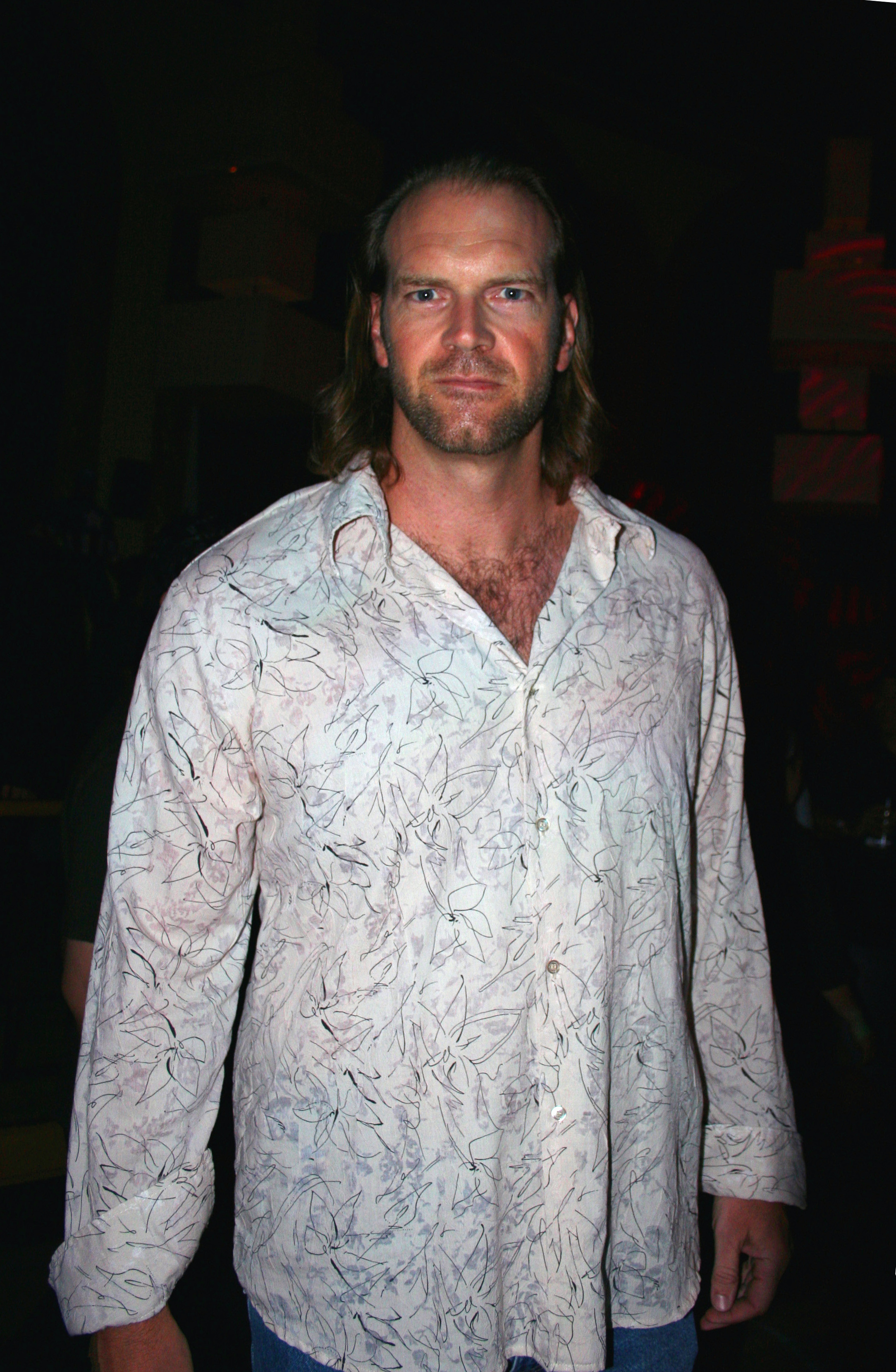 Tyler Mane (born as Daryl Karolat), is an actor and former professional wrestler who worked for World Championship Wrestling as Big Sky and Nitron.